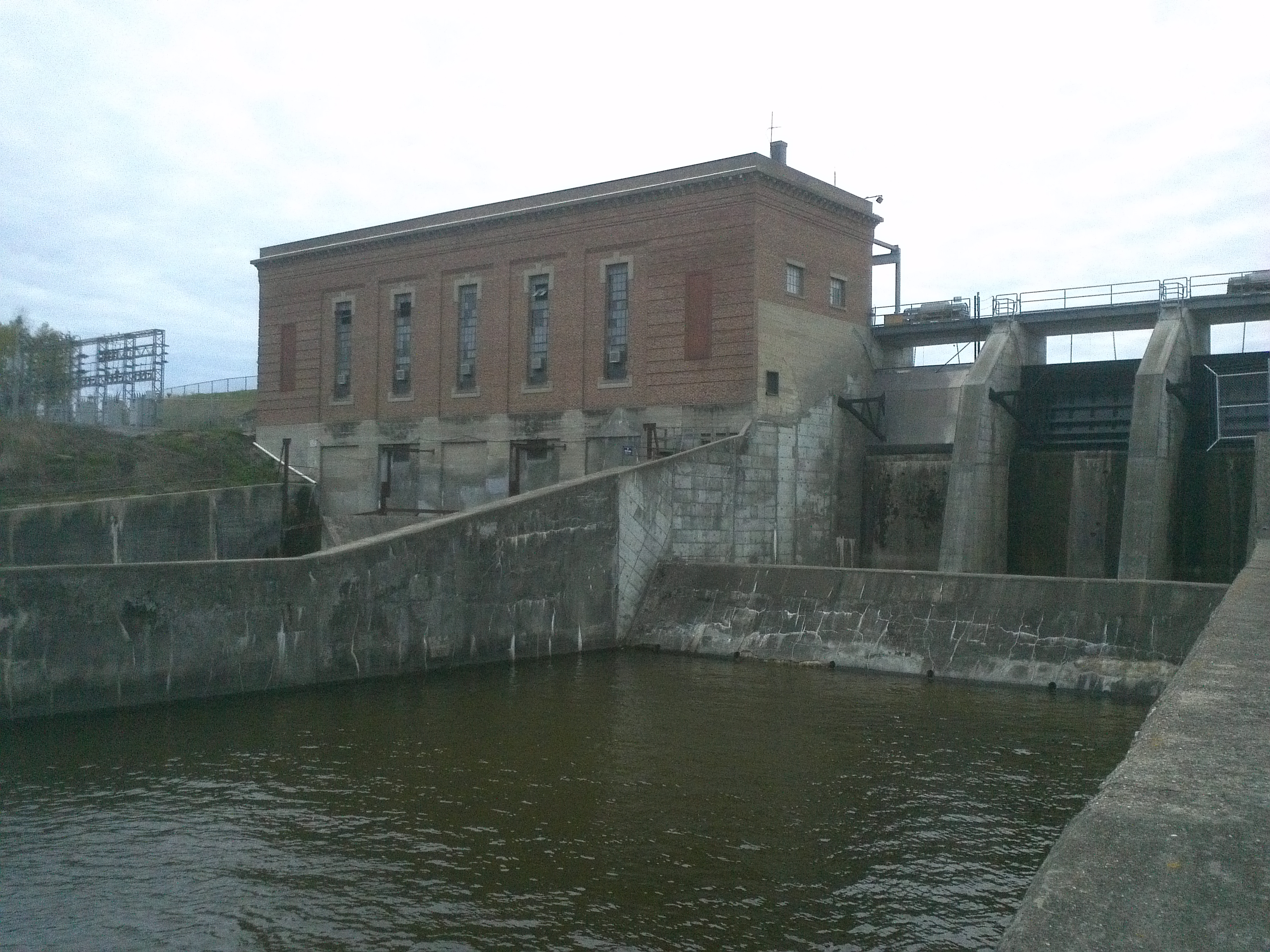 Photo of Foote Dam along the AuSable River in Spring 2012